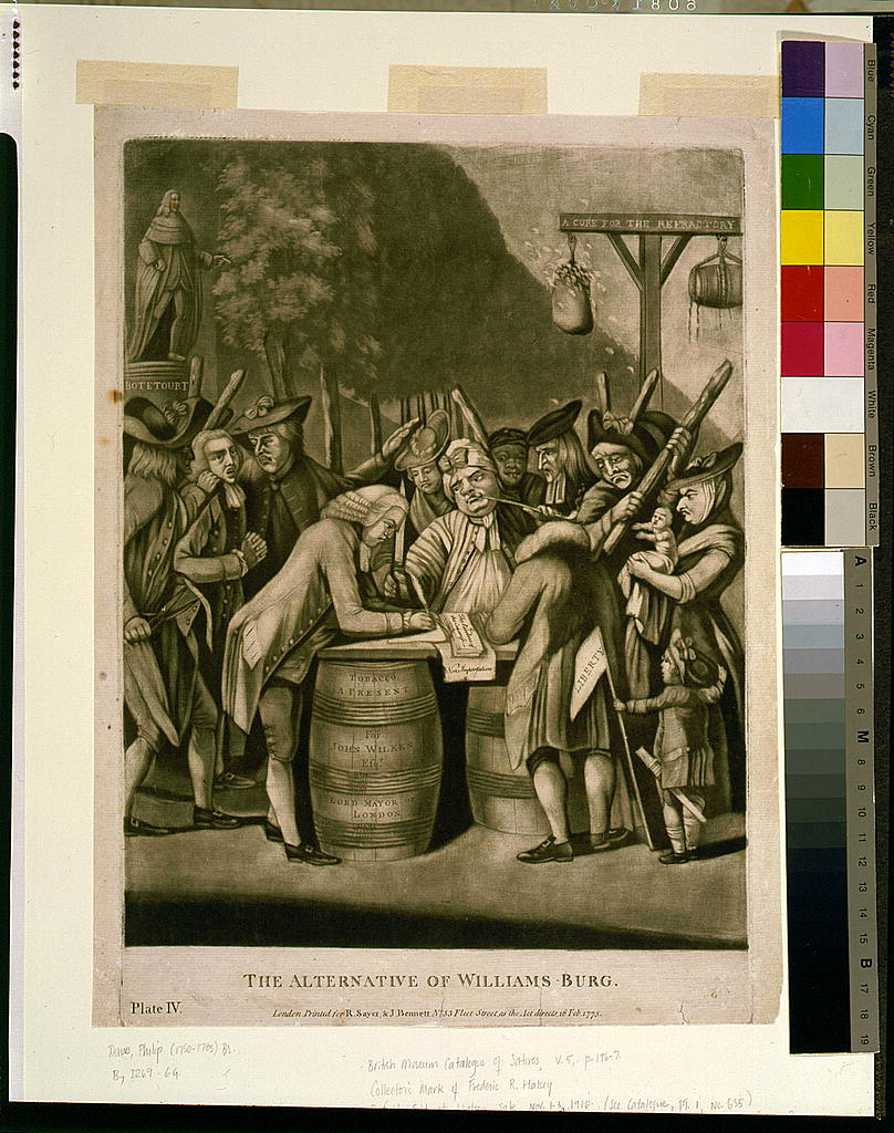 Title: The alternative of Williams-burg Abstract: Print shows a "Virginian loyalist" being forced to sign a document, possibly issued by the Williamsburg Convention, by a club-wielding mob of "liberty men". On the left, a man is being led towards a gallows standing in the background on the right and from which hangs a sack of feathers and a barrel of tar. Physical description: 1 print : mezzotint. Notes: Exhibited in: Creating the United States, Library of Congress, Washington, D.C., 2009.; Attributed to Philip Dawe, per BMC no. 5284.; Plate IV.; Published in: The American Revolution in drawings and prints; a checklist of 1765-1790 graphics in the Library of Congress / Compiled by Donald H. Cresswell, with a foreword by Sinclair H. Hitchings. Washington : [For sale by the Supt. of Docs., U.S. Govt. Print. Off.], 1975, no. 680.; Forms part of: British Cartoon Prints Collection (Library of Congress).